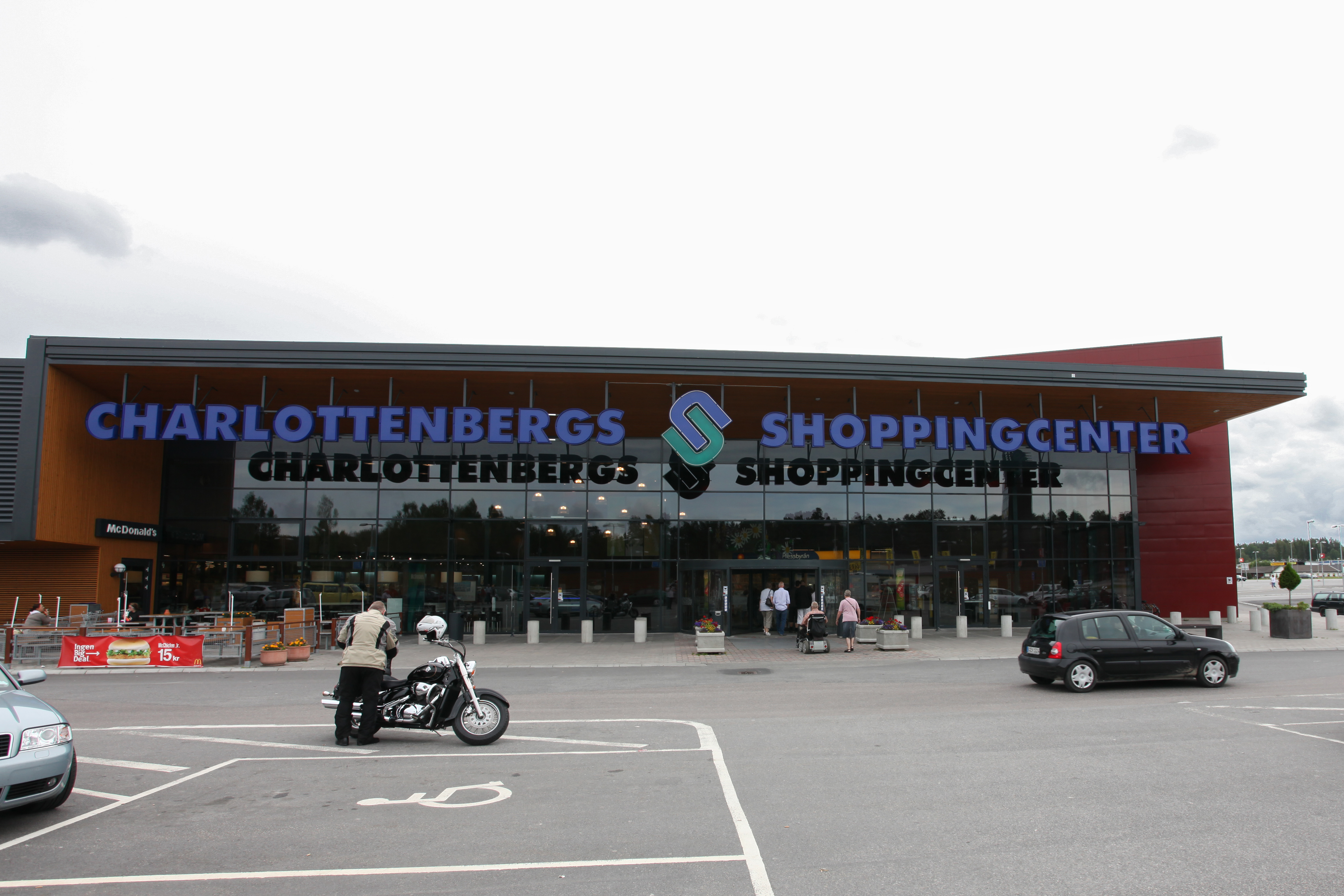 Charlottenberg Shopping Mall (Sweden)